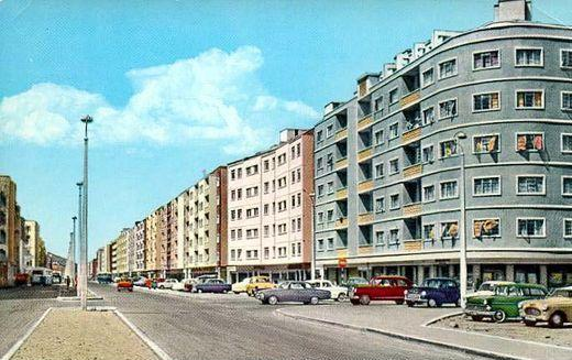 Mualla Main Road in 1966 — Aden.